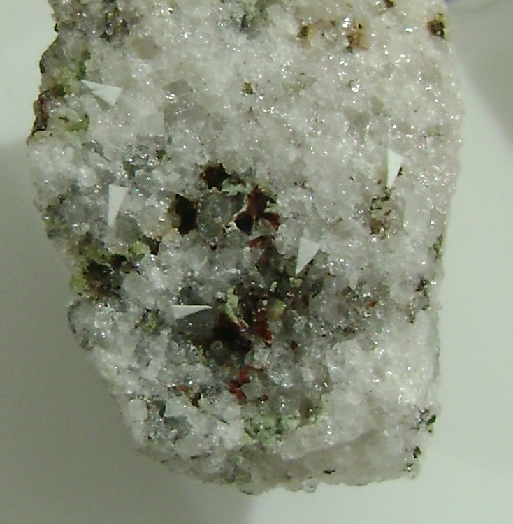 Yanomamite, Scorodite, Topaz, Cassiterite, Quartz Dimensions: 24 mm x 14 mm x 15 mm Locality: Mangabeira deposit, Monte Alegre de Goiás, Goiás, Brazil Yanomamite crystals covered with thin layer clear green Scorodite. Cassiterite: dark brown Matrix: Quartz and Topaz Total Size: 24x14x15mm Matrix length in visual field: 20mm Arrows are used to indicate Yanomamite.